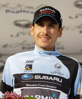 Lachlan Morton for Garmin Sharp, with the jersey of best young rider in the Tour of Utah 2013